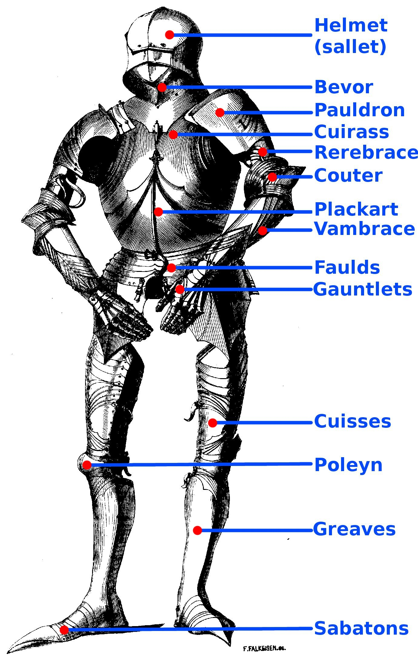 Gothic plate armour with names of elements added